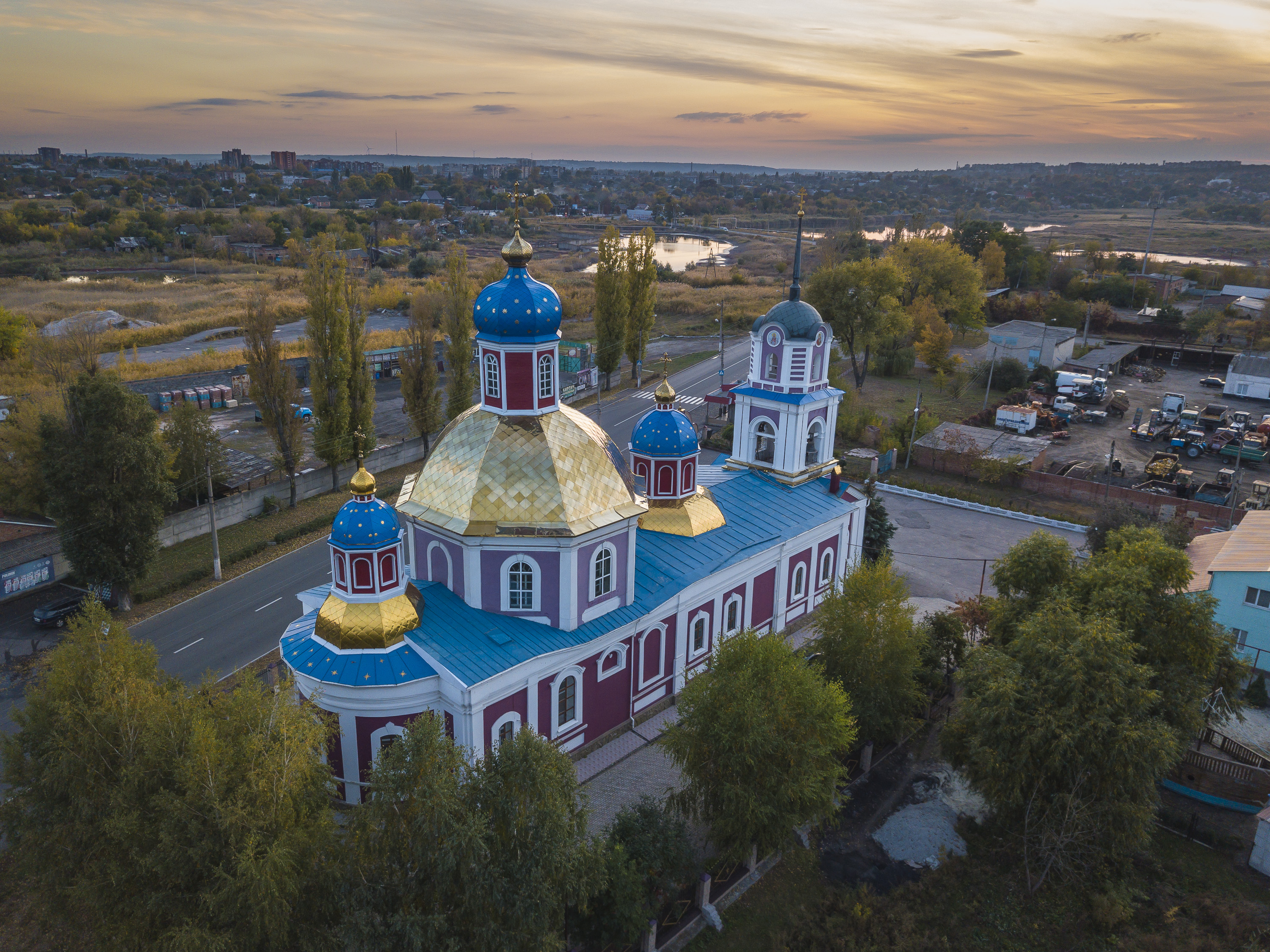 Church of Resurrection of Christ, Sloviansk, Donetsk Oblast, Ukraine